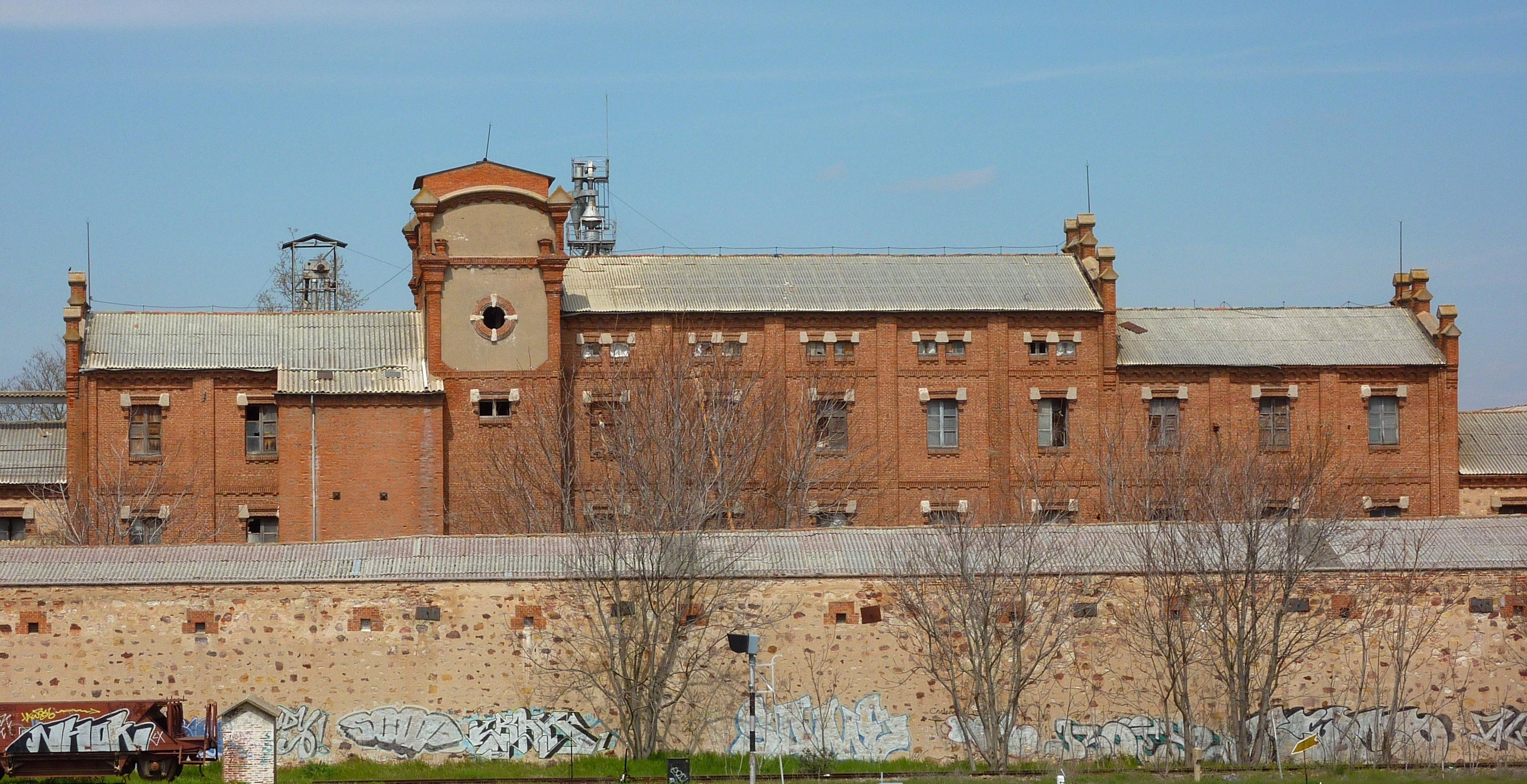 Rubio Flour Plant, Zamora, Spain.